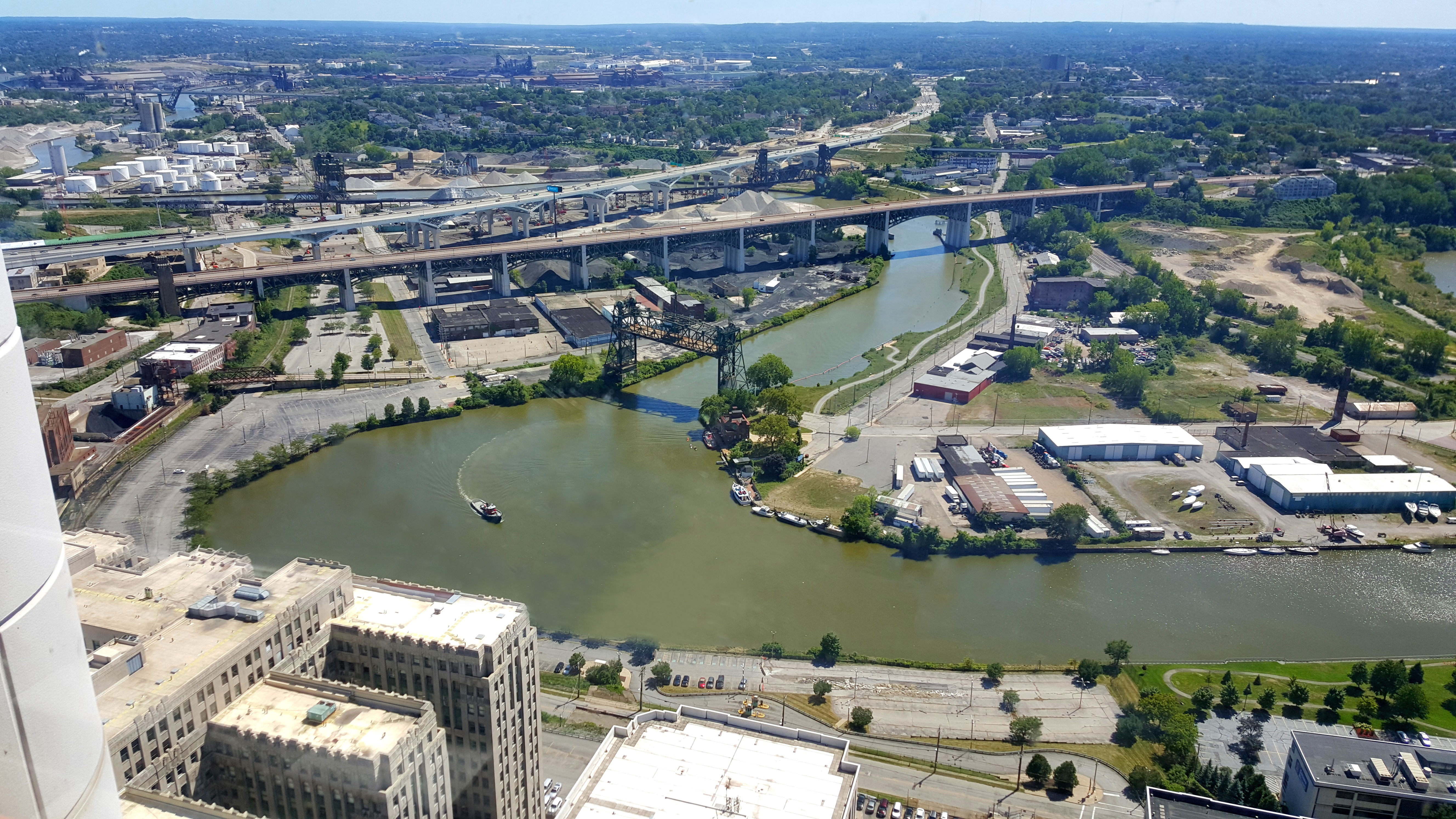 Looking at "Collision Bend" in the Cuyahoga River in downtown Cleveland, Ohio, on August 22, 2015. Taken from the 47th floor of Terminal Tower.